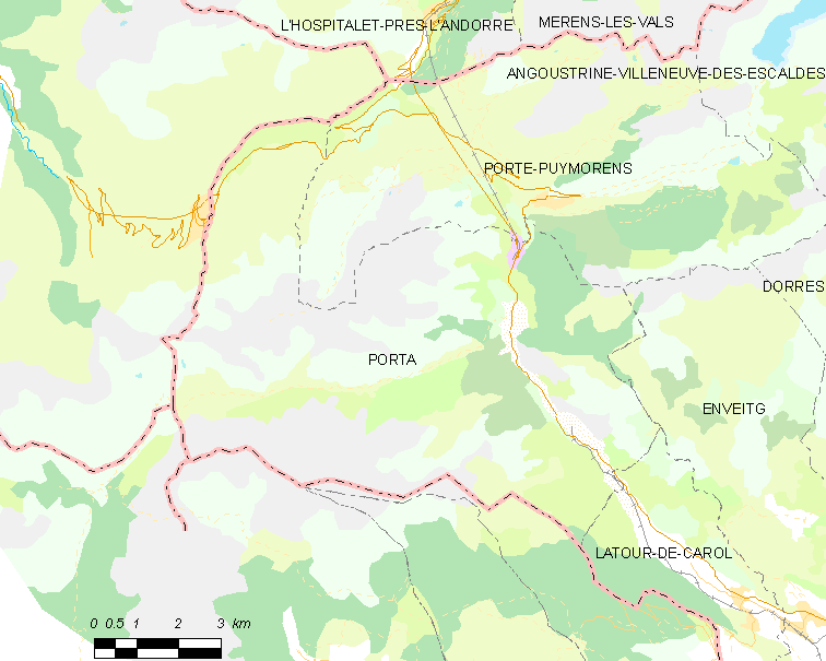 Map of French municipality